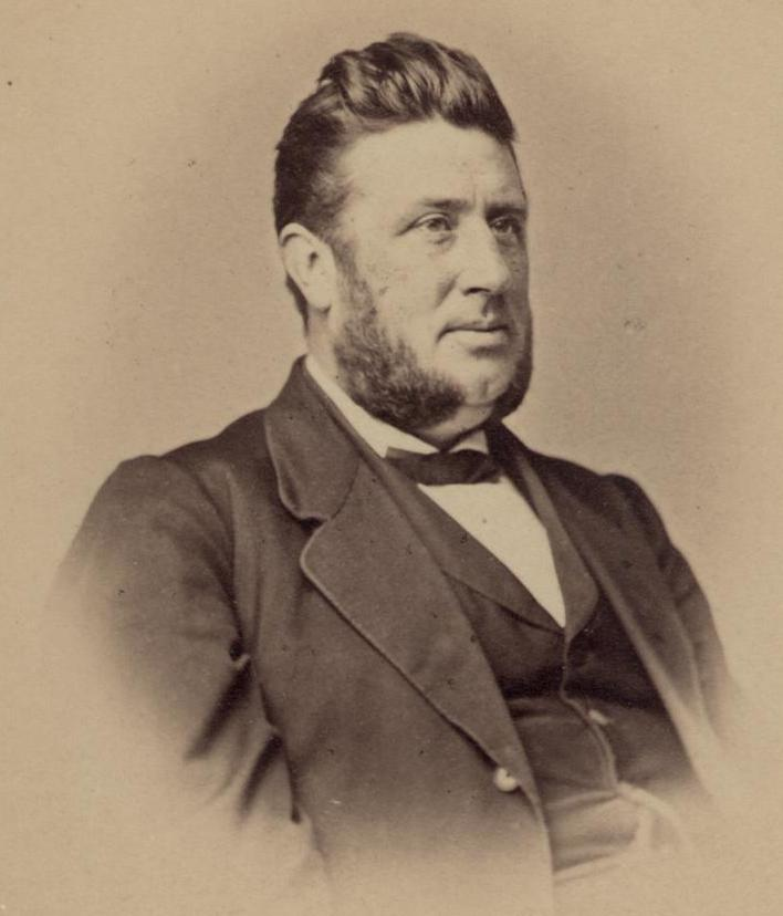 Artist: Meyer & Nicolaysen Date/place: 1868, Bergen[?] Subject: Dr. J. A. Holmboe portrait Medium: photographic positive, B&W Notes: none Persistent URL: [#// Original belongs to the Ole Bull Collection at Bergen Public Library]